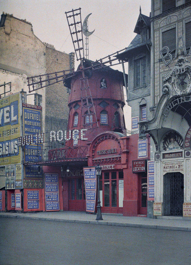 Autochrome from Albert Kahn's Archives de la planète